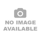 no-image-available png icon